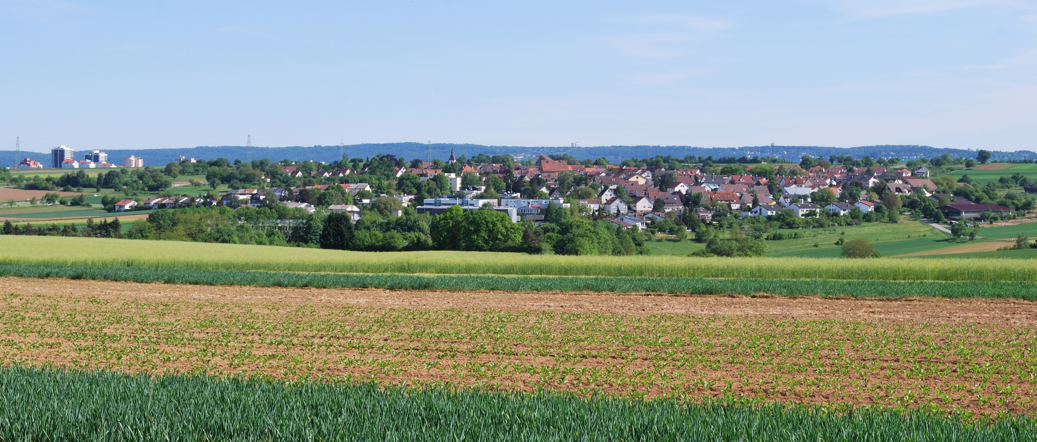 View of Schöckingen from the North